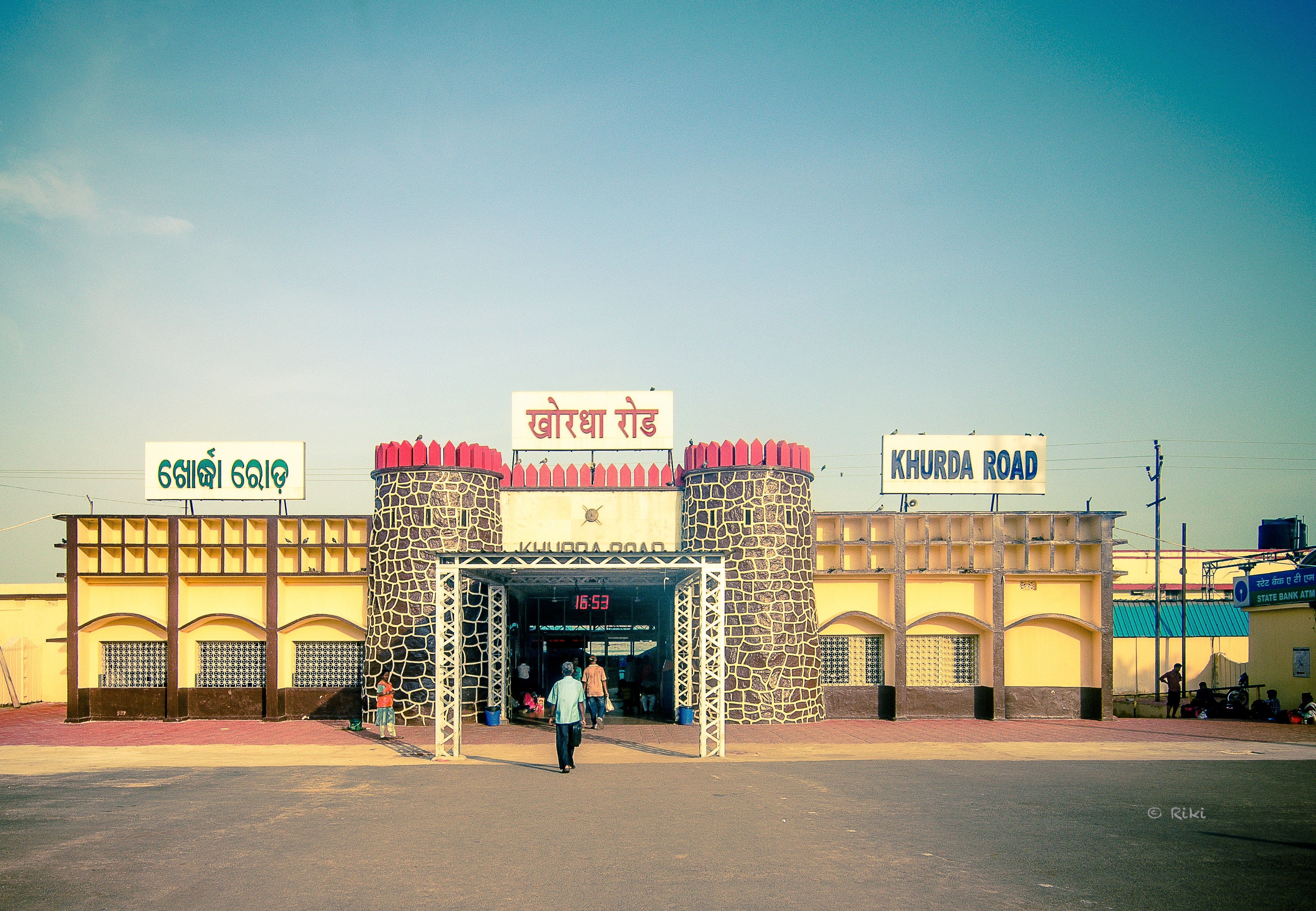 Khurda Road Railway Station